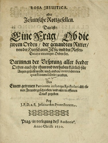 Rosa Jezuitica